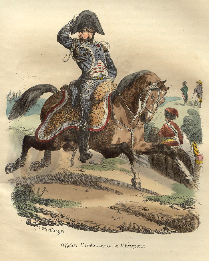 One of Napoleon's orderly officers. From book of P.-M. Laurent de L`Ardeche «Histoire de Napoleon», 1843